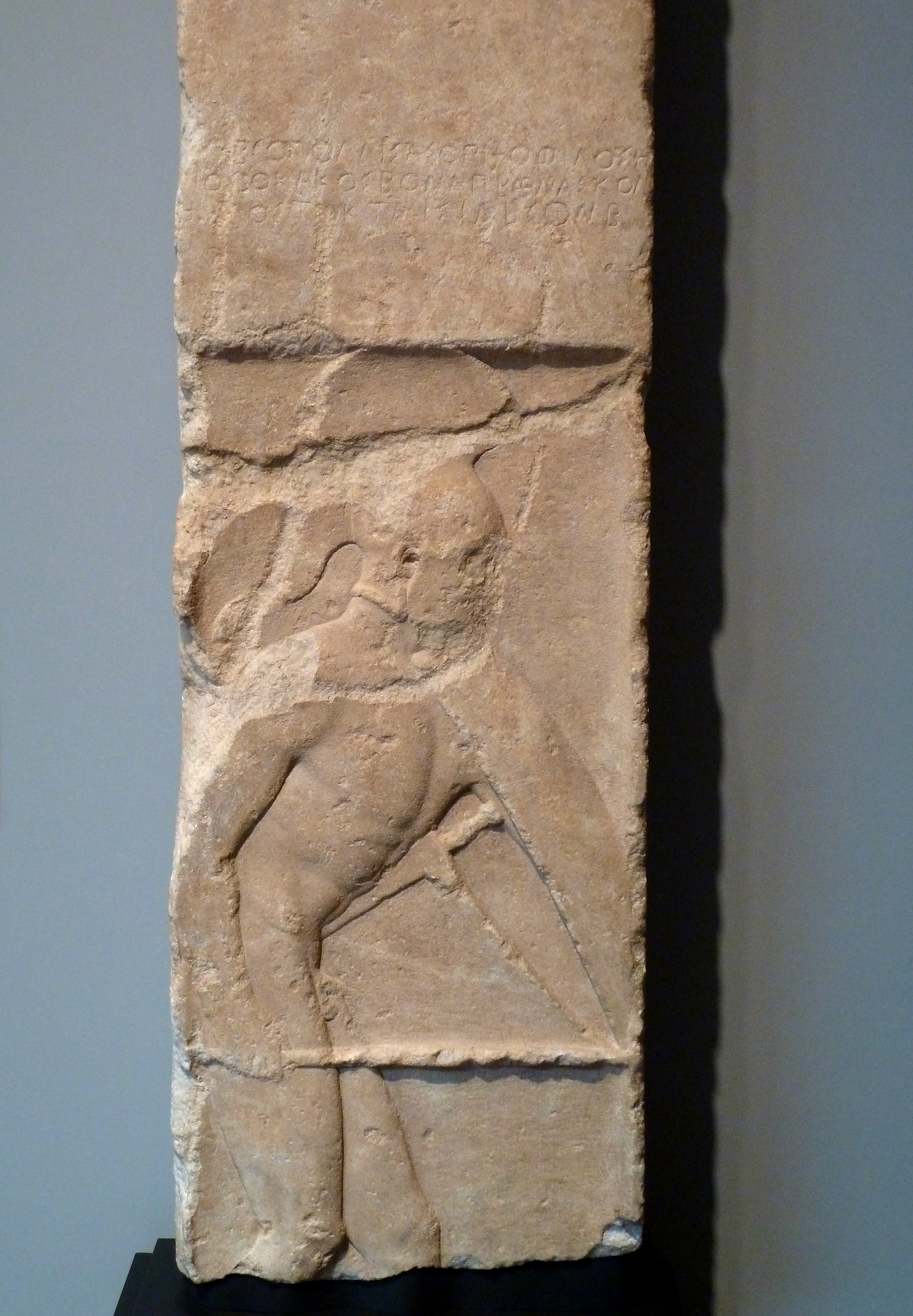 A funerary stele or gravestone of a hoplite (foot soldier), which was originally painted. The inscription at the top of the stele contains letters from the alphabets of both Athens and Corinth, which was typical of Megara, a city-state between the two. It reads: "I speak, I, Pollis dear son of Asopichos, not having died a coward, with the wounds of the tattooers, yes myself". The "tattooers" referred to were probably the Thracians, who lived north of Greece.